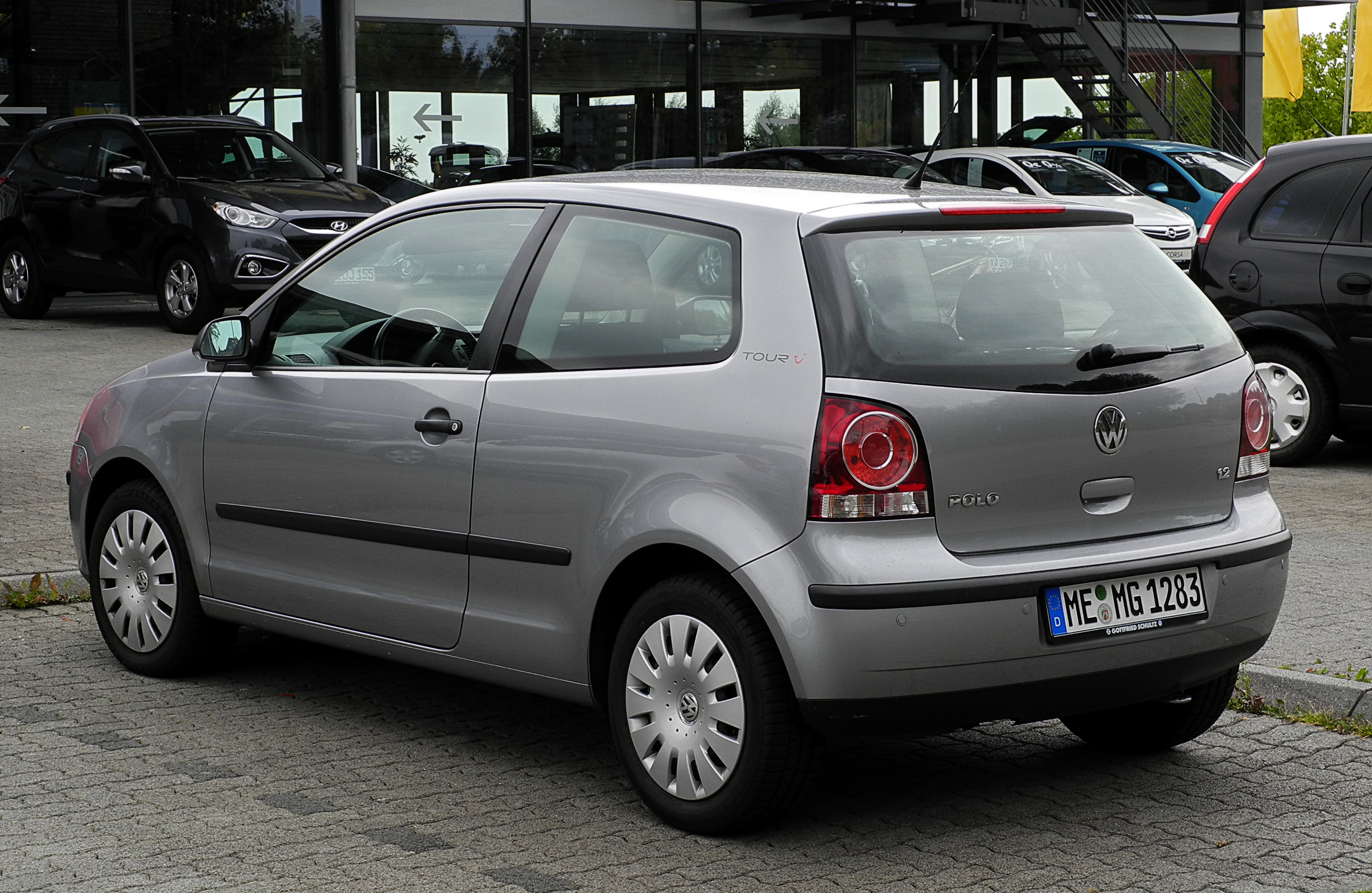 VW Polo 1.2 Tour (IV, Facelift)